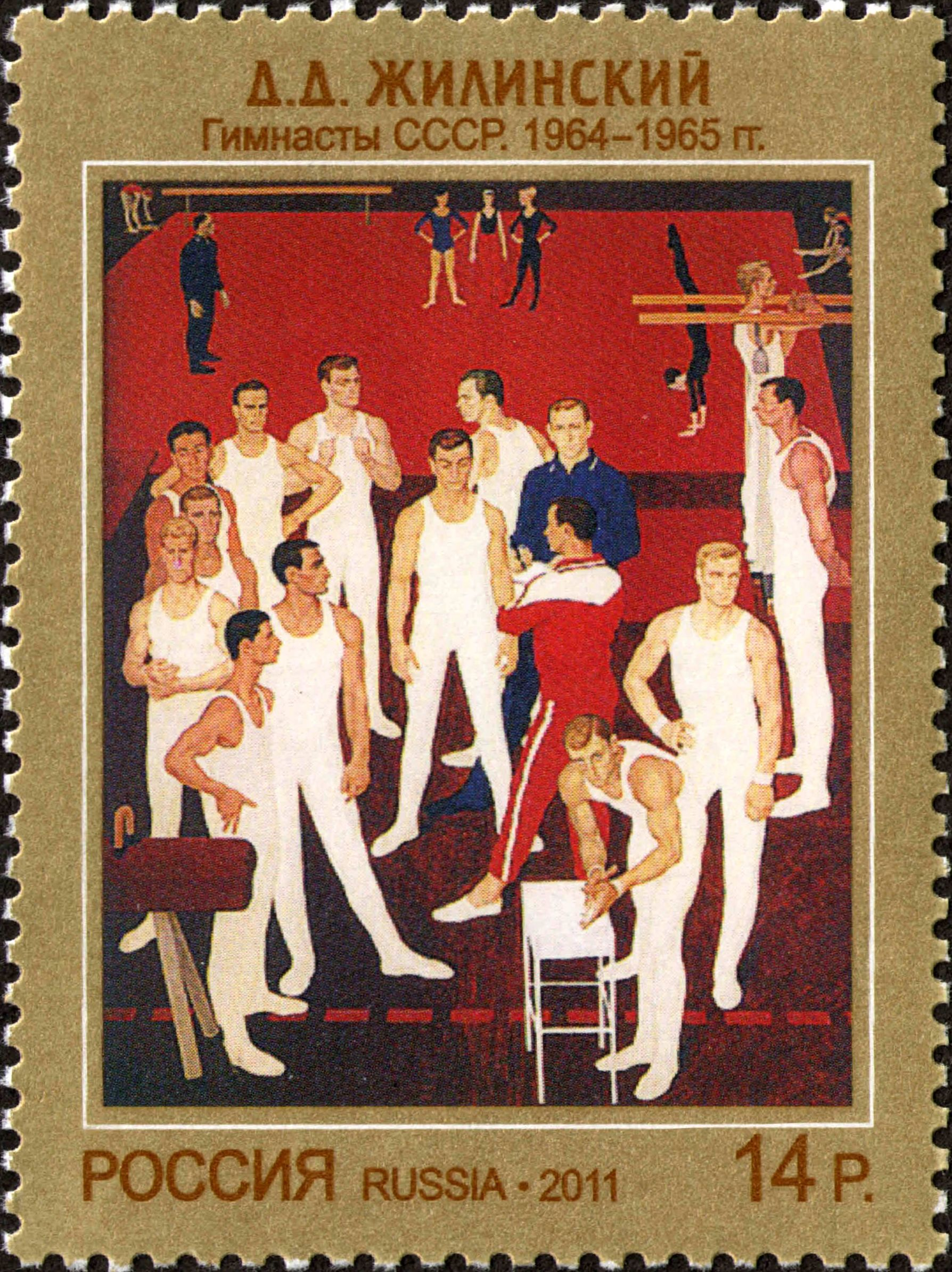 The contemporary art of Russia (the ongoing stamp series, issue I).The Gymnasts of the USSR by Dmitry Zhilinsky. Tempera, chalky primer, fiberboard. 1964–1965. State Russian Museum.Dmitry Dmitrievich Zhilinsky (born 1927) is a Soviet and Russian painter, a People's Artist of the RSFSR, a recipient of the RSFSR State Prize and the State Prize of the Russian Federation.The stamp of Russia, 14.00 Rubles, 12 September 2011, PTC Marka Catalogue No 1514, Michel No 1746. Coated paper, varnish coating, bronze paste. Offset printing. Perforation: comb 11:12½. Size of the stamp: 37×50 mm. Print run: 270,000.